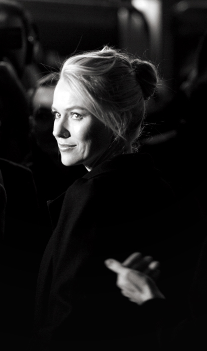 Naomi Watts at the London Film Festival for the Eastern Promises premiere